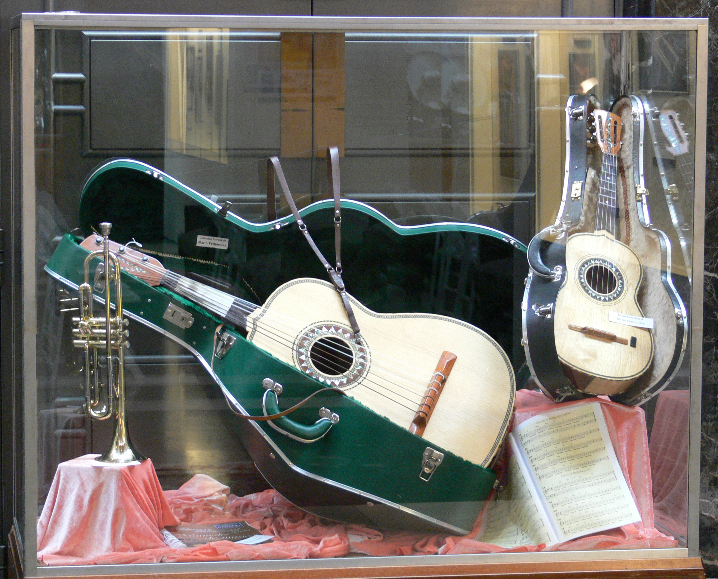 Texan-Mexican Mariachi instruments